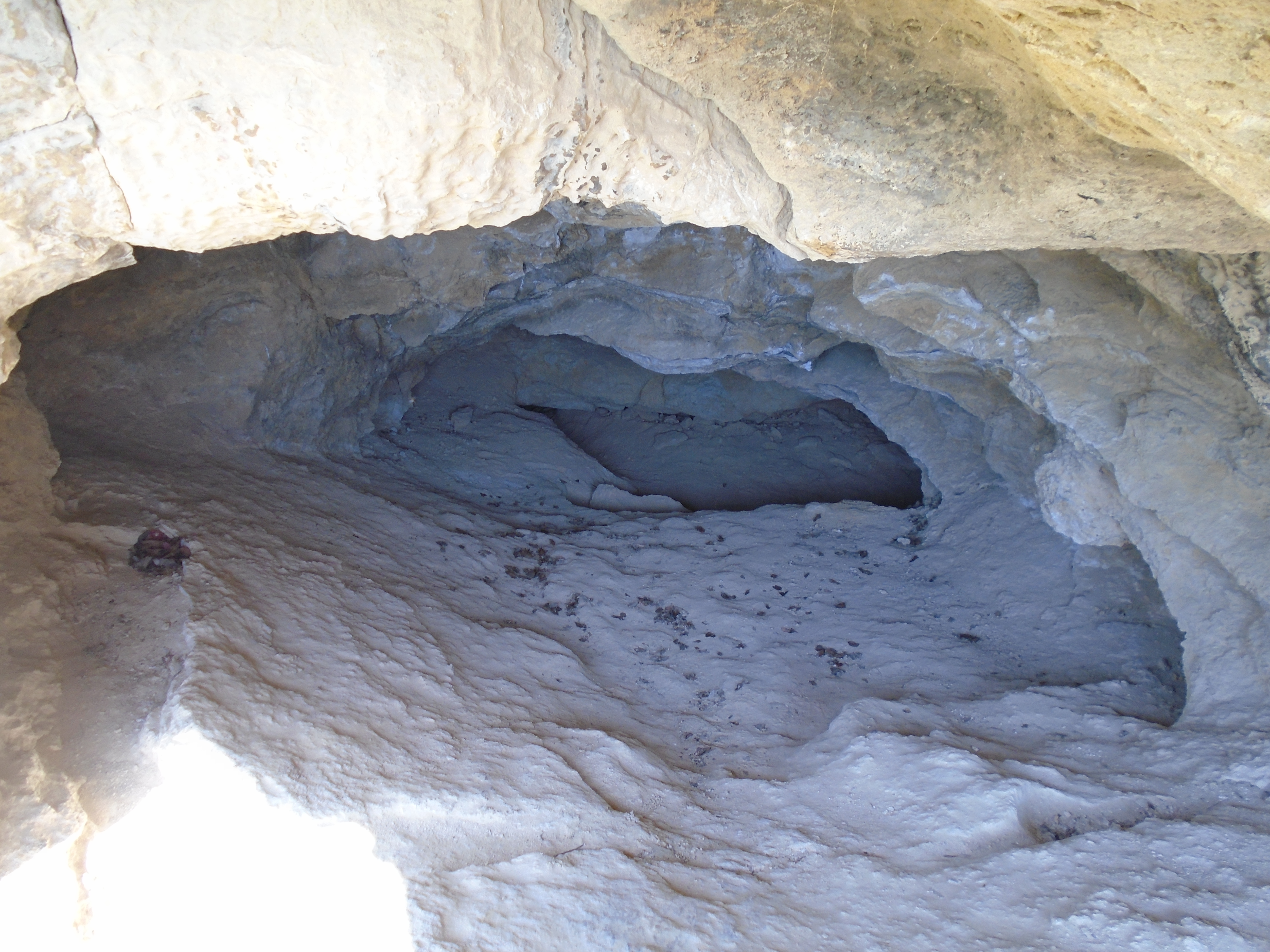 Inside of Keleti quarry No 4 Cave.